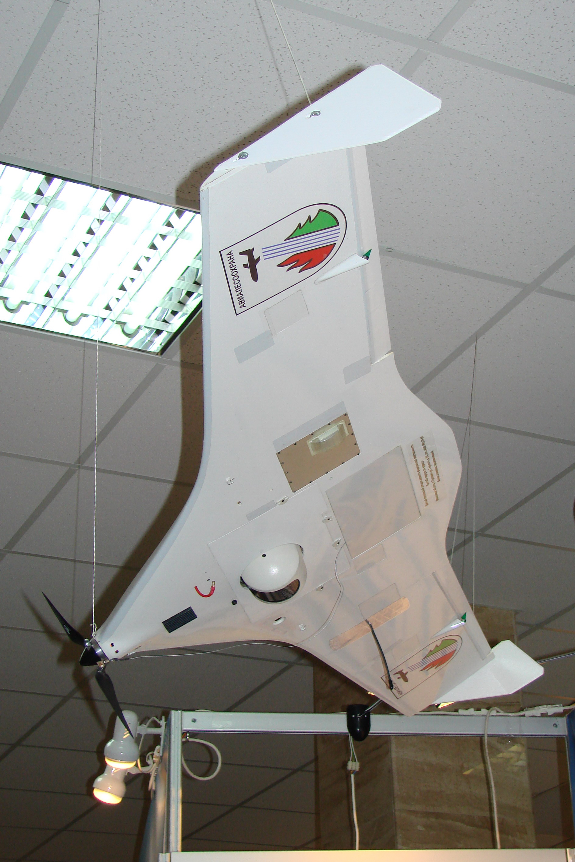 Russia, Vologda, Exhibition-Fair «Russian forest», Russian Unmanned aerial vehicle ZALA 421-04M